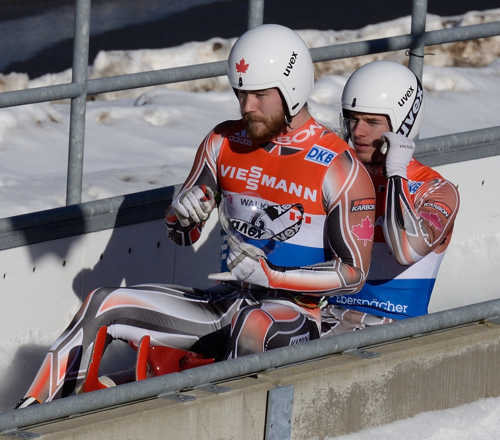 Luge world cup race season 2014/15 in Altenberg/Germany, 19th to 22nd Februar 2015. Day 1: training.